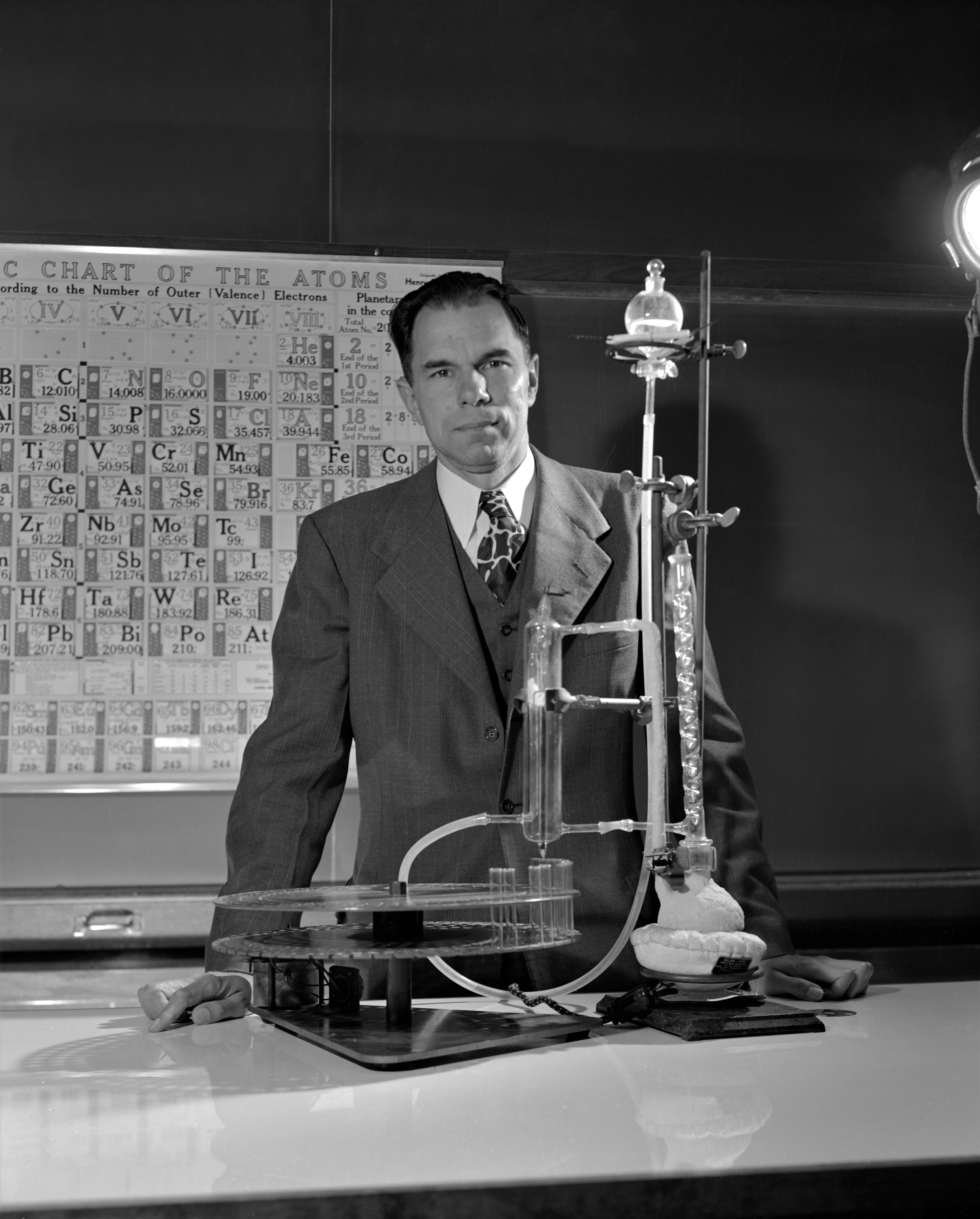 Glenn T. Seaborg standing in front of the periodic table with the ion exchanger illusion column of actinide elements.